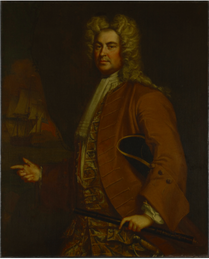 Commodore Edward Tyng (1683-1755)